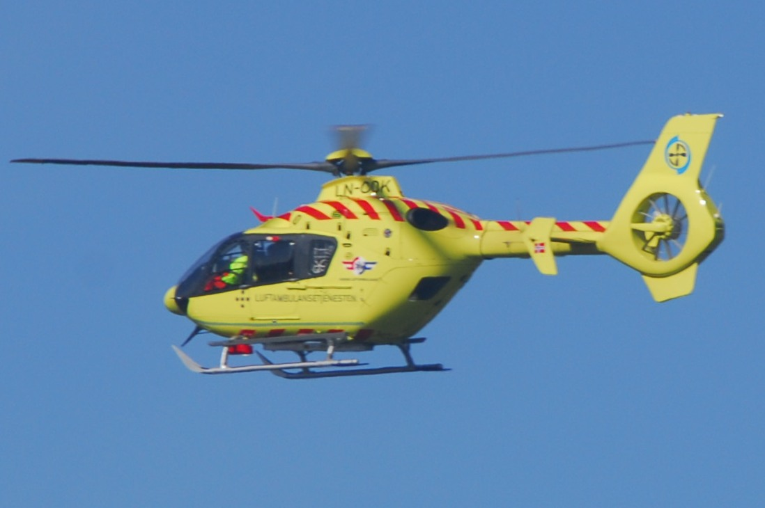 Norsk Luftambulanse Eurocopter EC135P2 LN-OOK in Trondheim